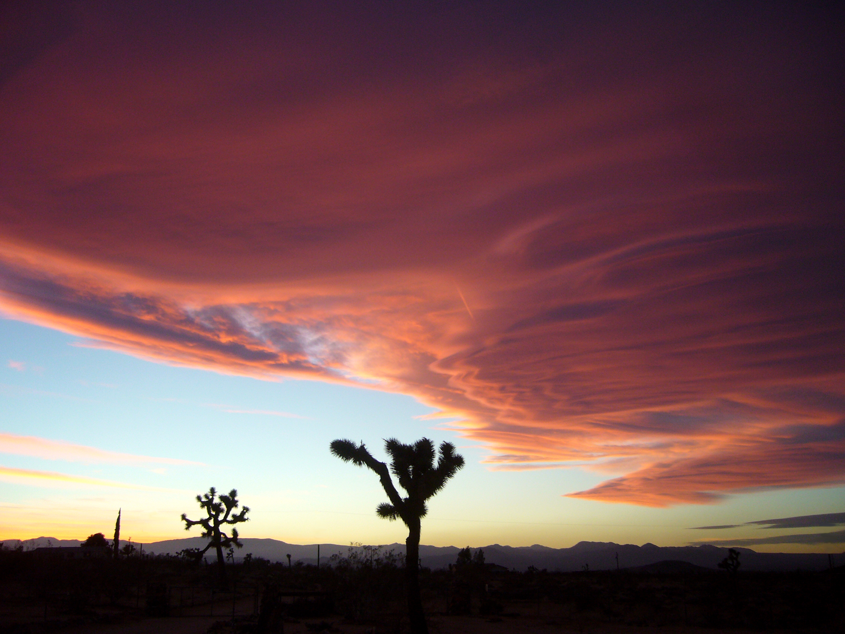 Clouds reflecting high wind conditions from Orographic Lift in the Mojave Desert.